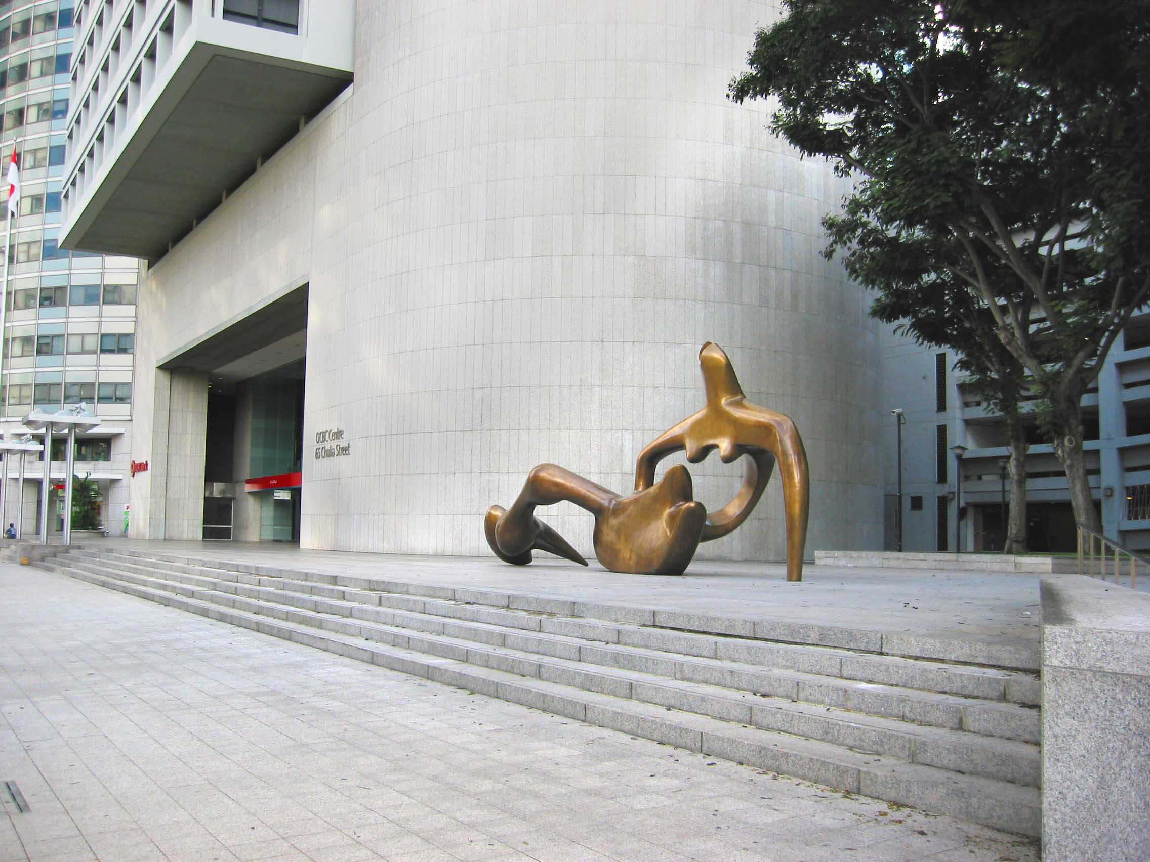 Foot of OCBC Building, Singapore, with the abstract sculpture by Sir Henry Moore.